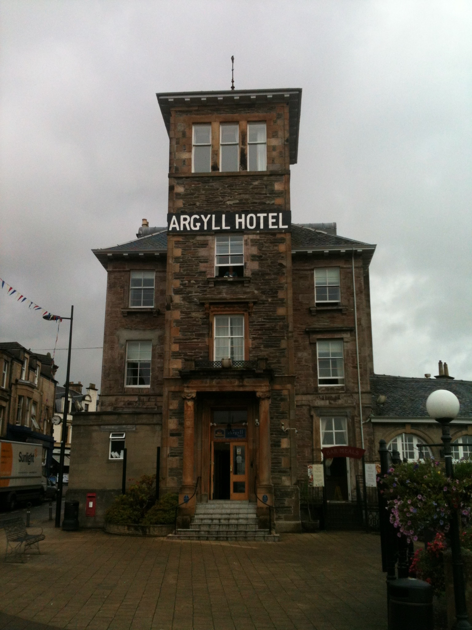 Argyll Hotel, Dunoon, Scotland.